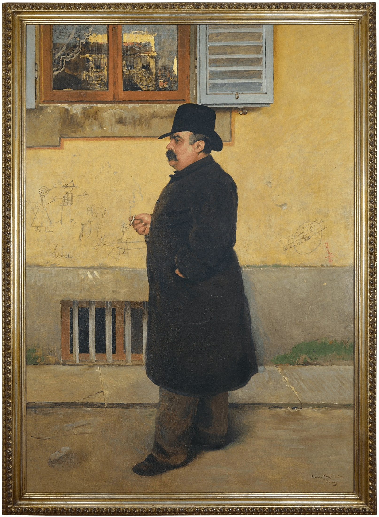 Rotratto de Yorick